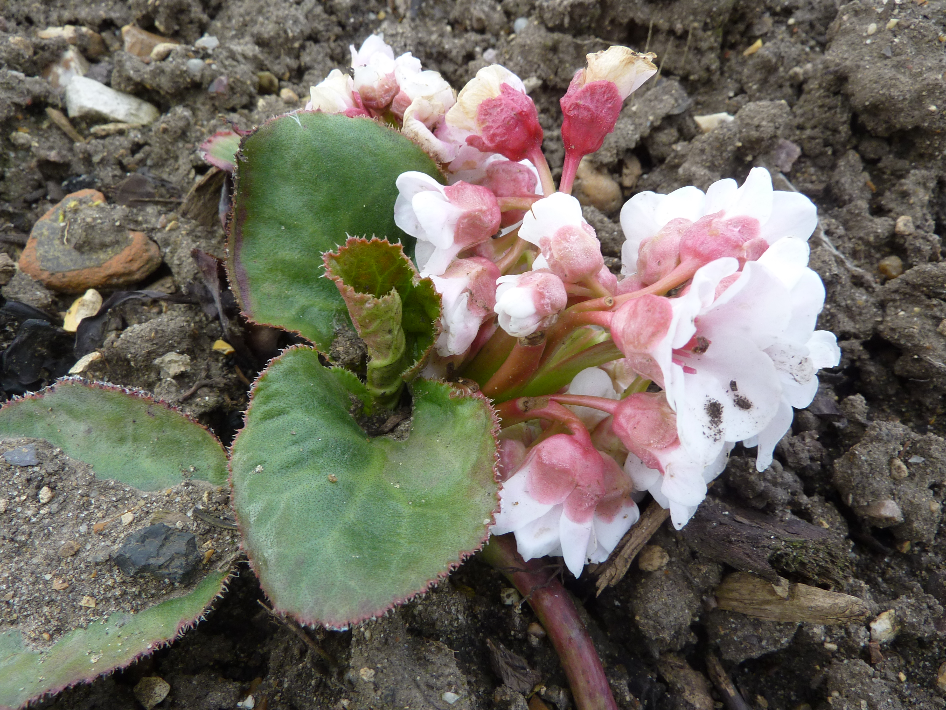 Taken in the Cambridge University Botanic Garden.